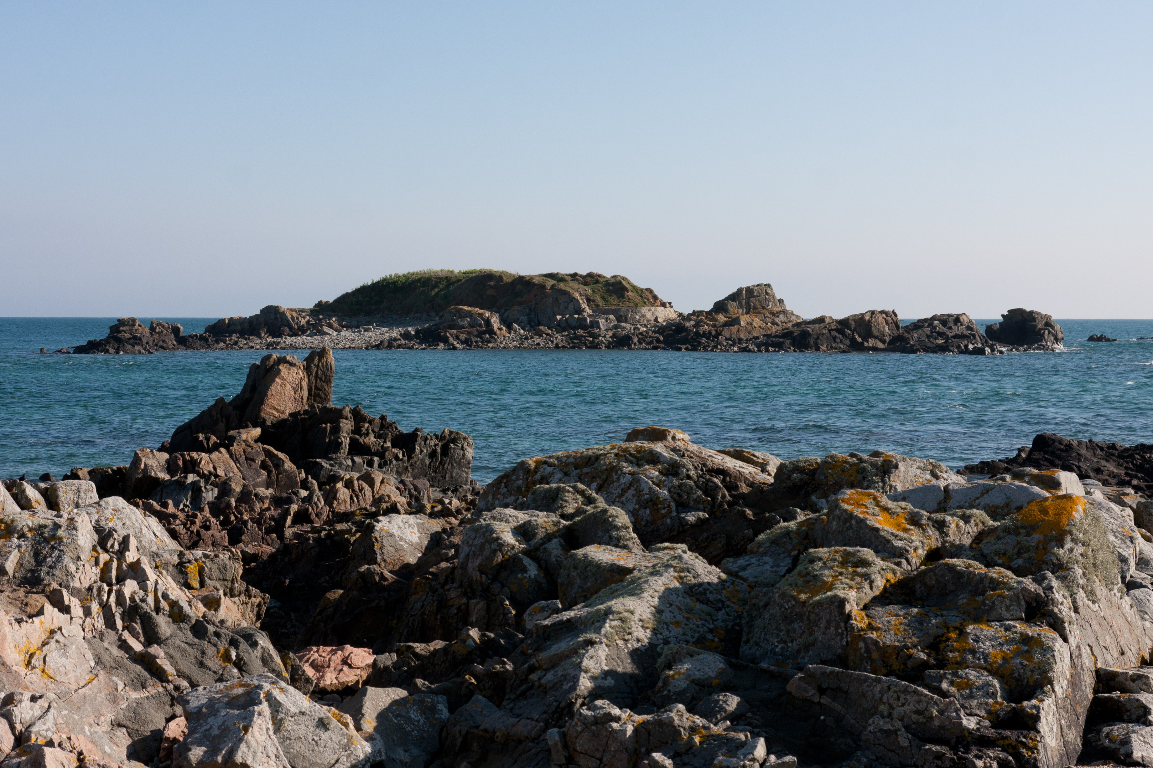 View of La Motte islet a.k.a. Green Island, around high-tide, in St. Clement, Jersey.